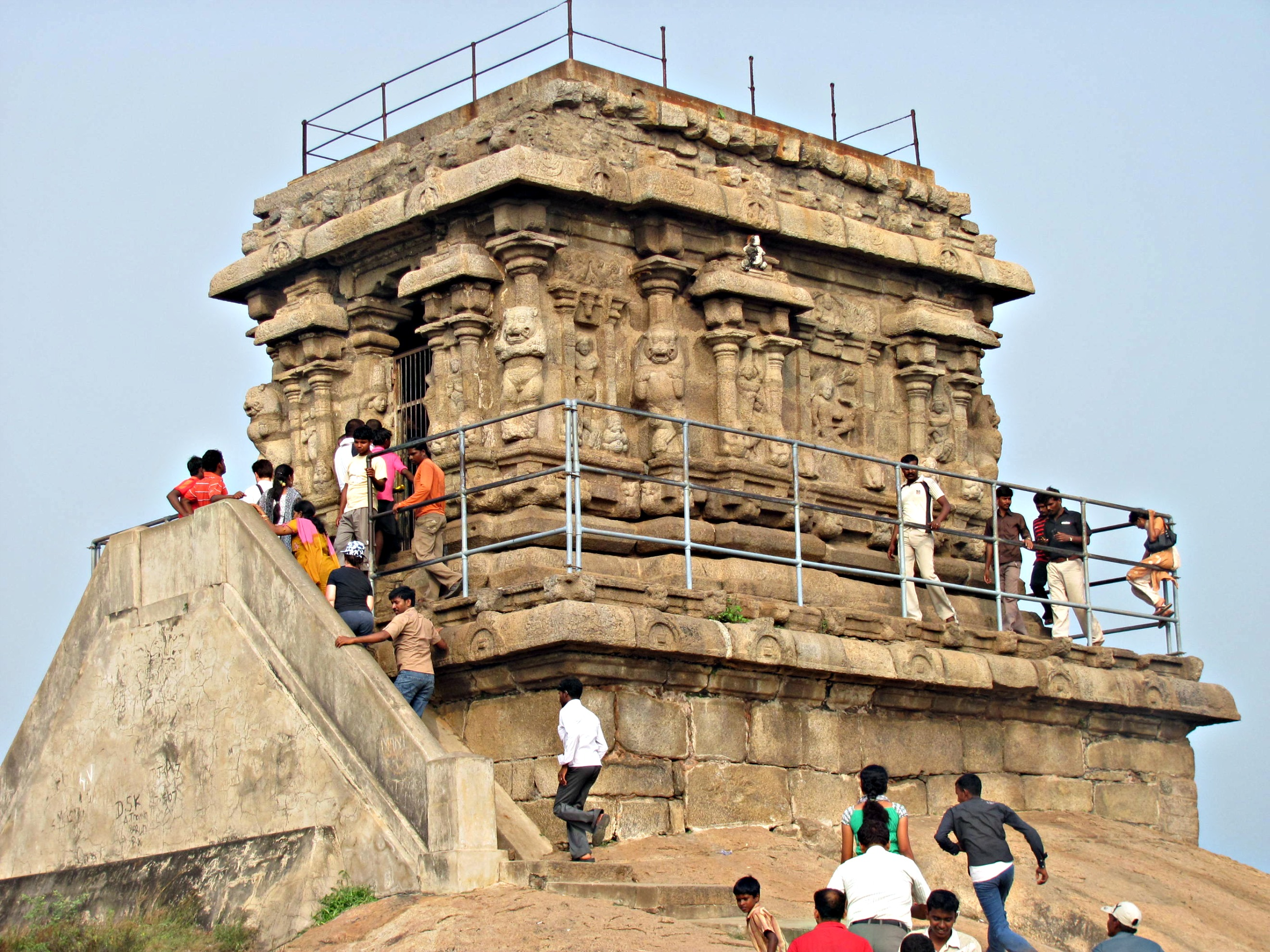 The historical Olakneswara Temple which lies on top of the Mahishasura Mardhini cave temple in Mamallapuram or Mhabalipuram